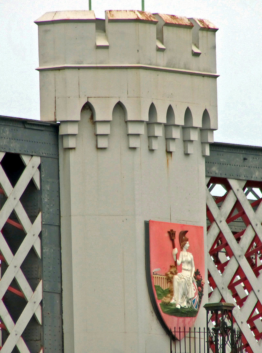 Victoria shield on the western face of the Runcorn-Widnes railway bridge showing an LNWR loco and train crossing the viaduct leading to the bridge.